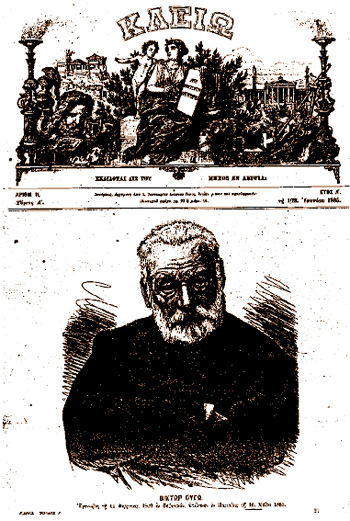 Greek newspaper refers to the death of Victor Hugo